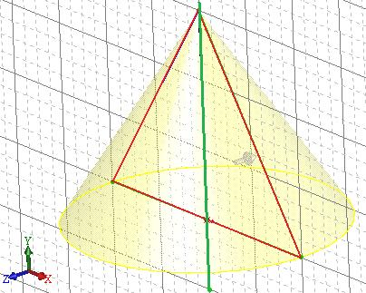 meridian section of cone